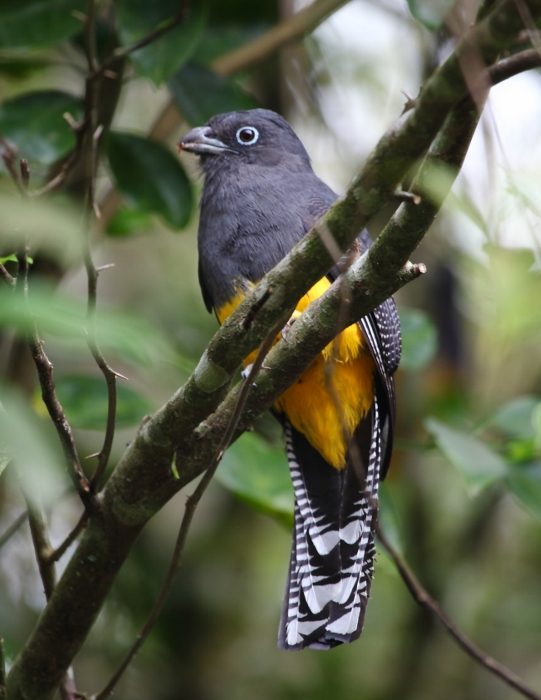 White-tailed Trogon (female) at Bertioga - SP - Brazil